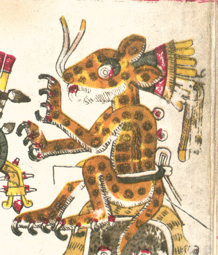 A drawing of Tepeyollotl, one of the deities described in the Codex Borgia